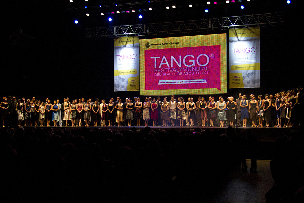 Tango Dance World Championship 2011. Luna Park, Buenos Aires. Foto: Estrella Herrera)